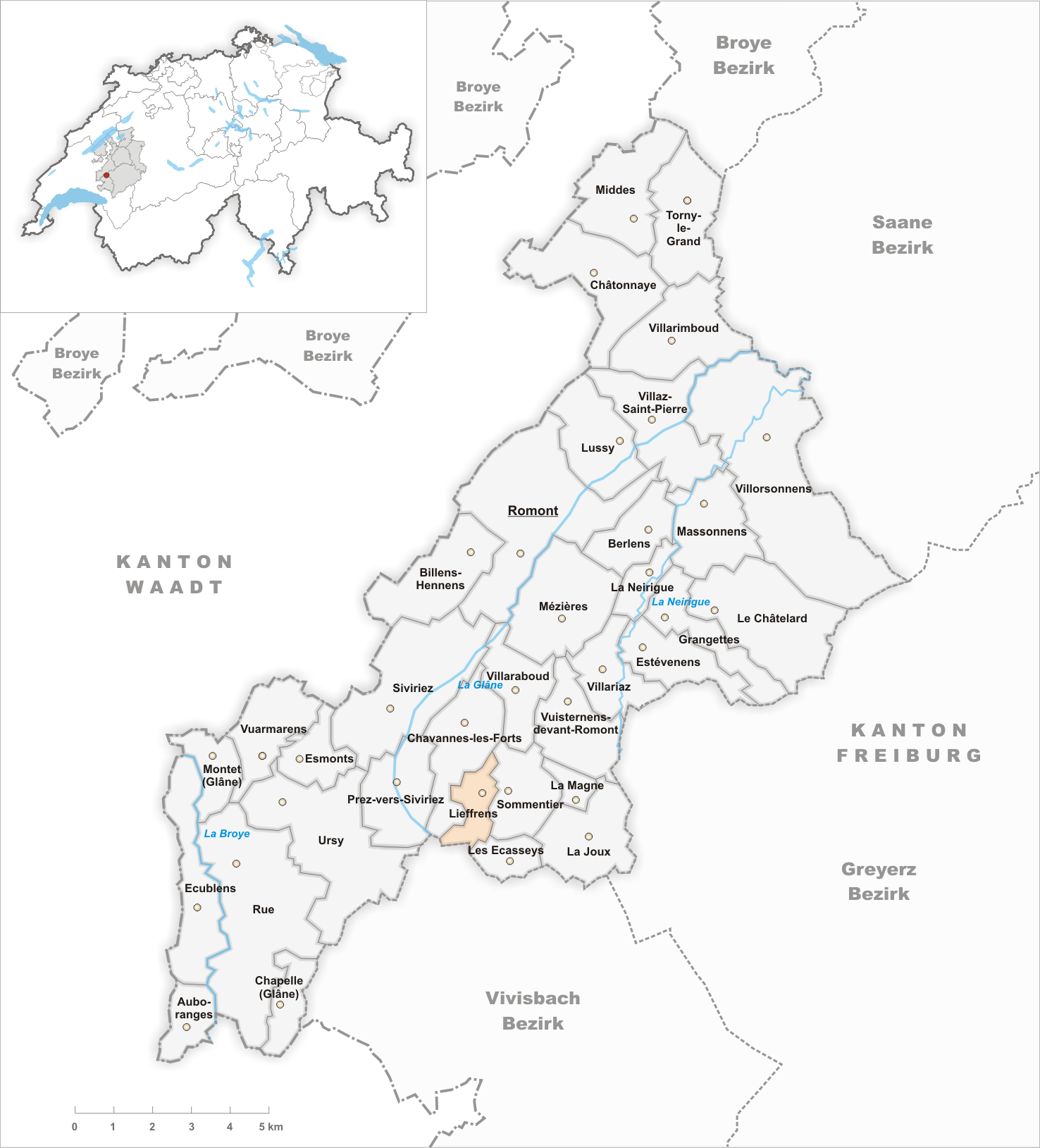 Municipality Lieffrens Artist: Tschubby